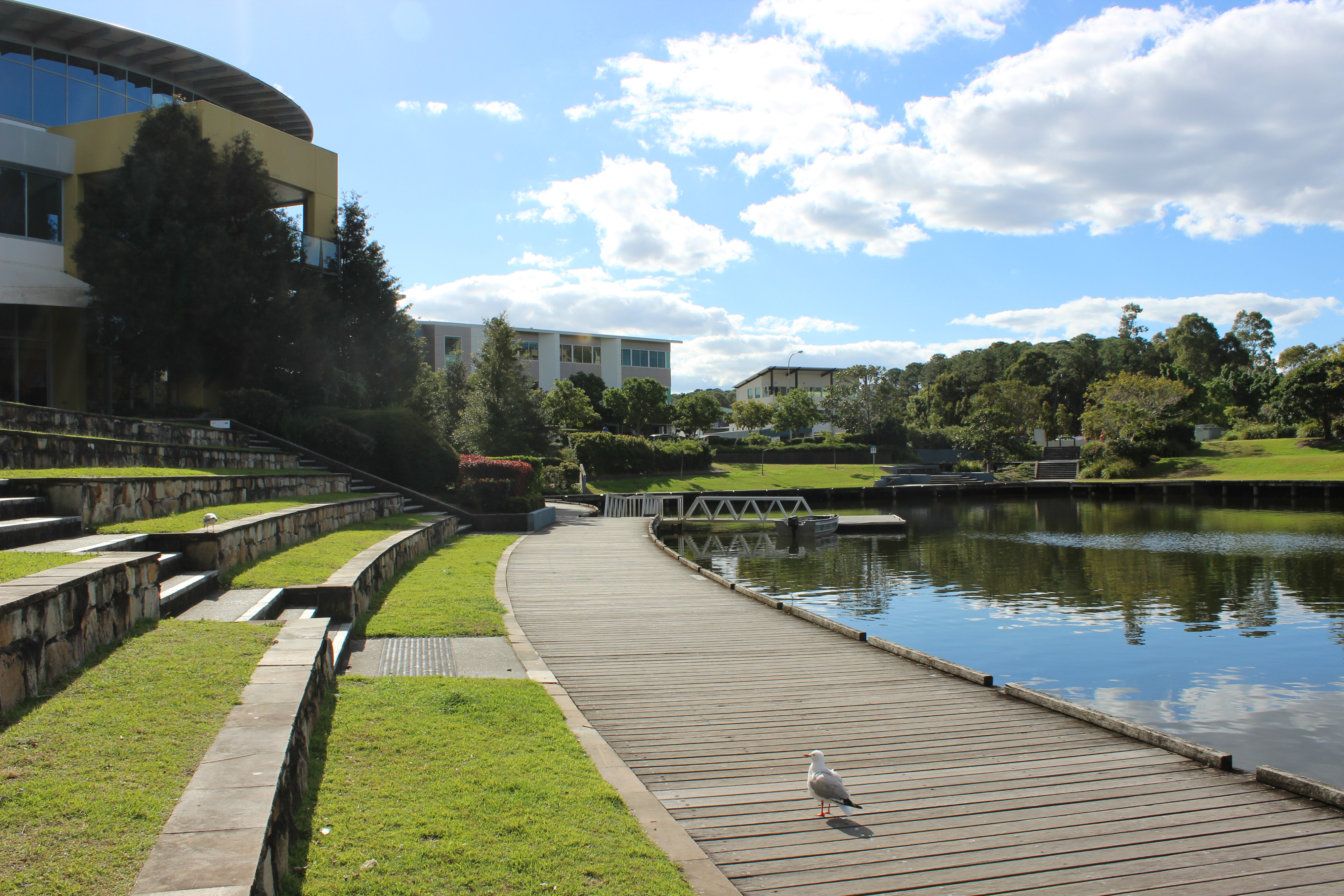 Varsity Lakes lakefront 2015